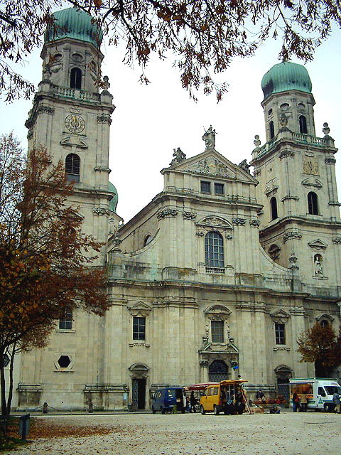 St. Stephan's Cathedral, Passau